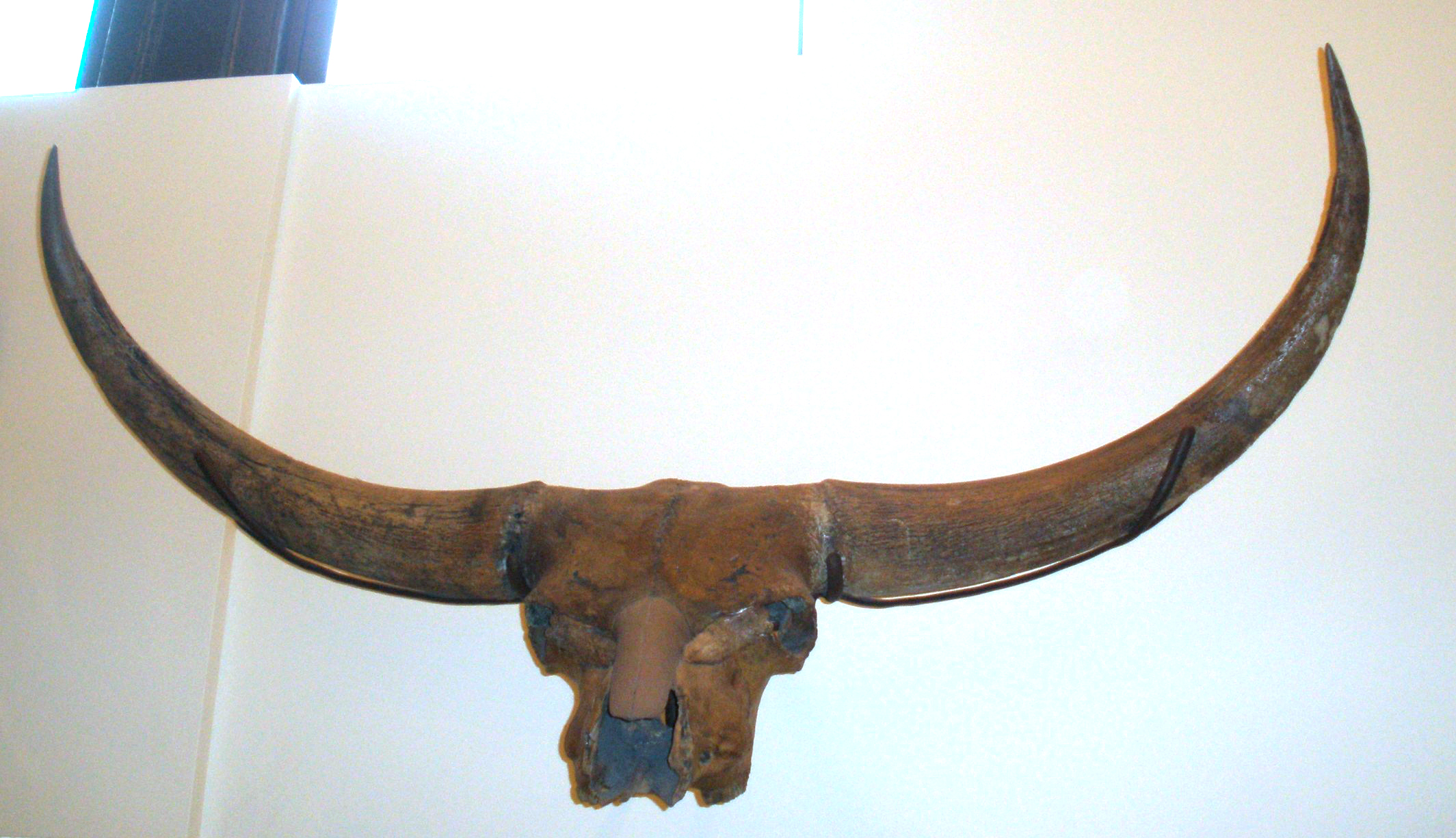 Horn cores of Bison latifrons, a fossil bison